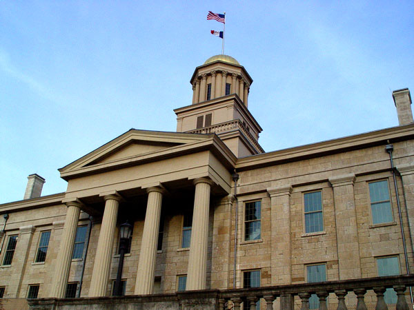 Courtesy Matthew Charles yohe. The following information is from University of Iowa: The Old Capitol is located on the University of Iowa campus. It was once the primary government building for the state of Iowa, but it is now a museum of Iowa history. It is listed on the National Register of Historic Places.